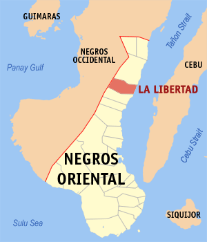 Map of Negros Oriental showing the location of La Libertad